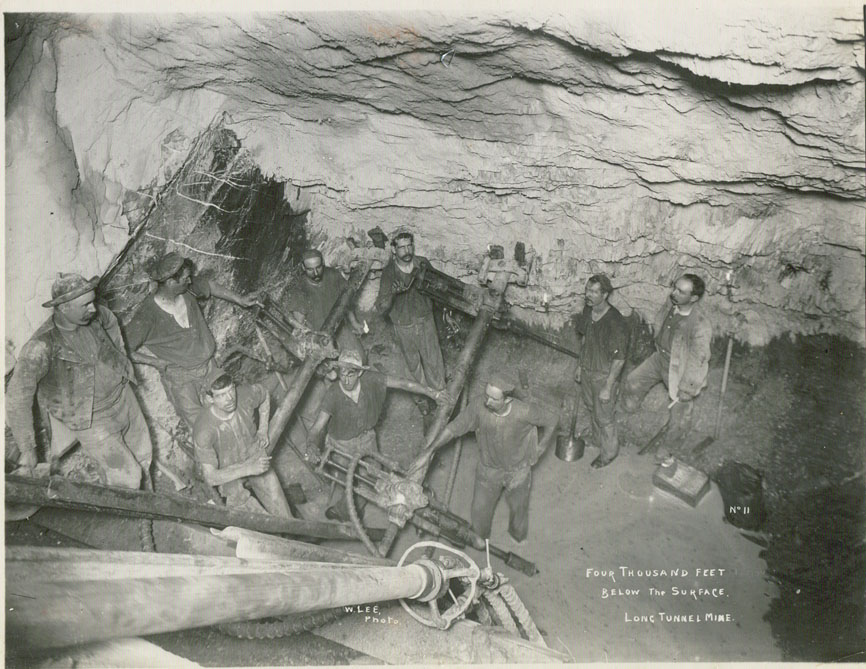 Long Tunnel Extended Gold Mine 4000 feet down, Walhalla, Victoria ca1910